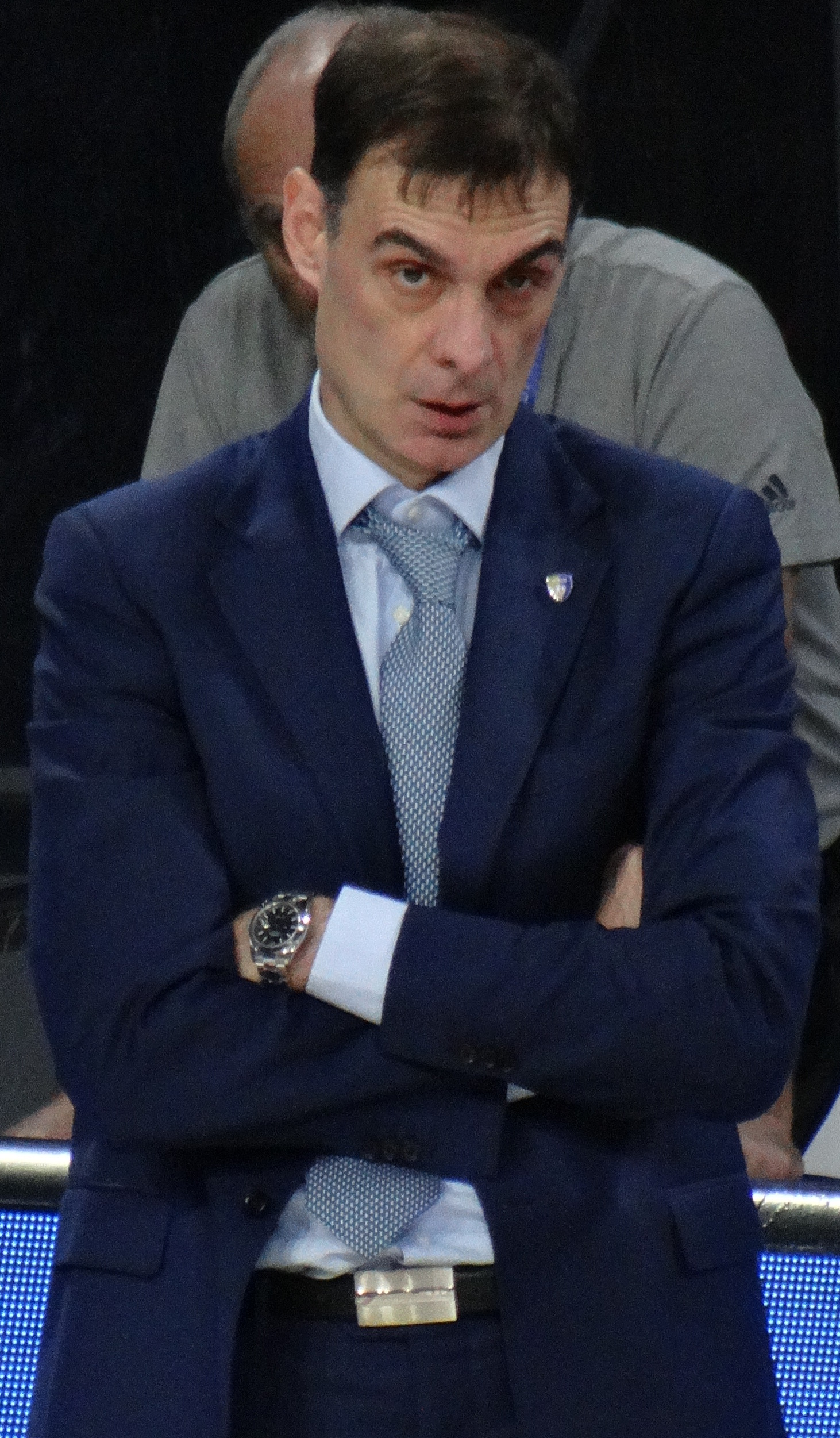 Georgios Bartzokas BC Khimki EuroLeague 20180321